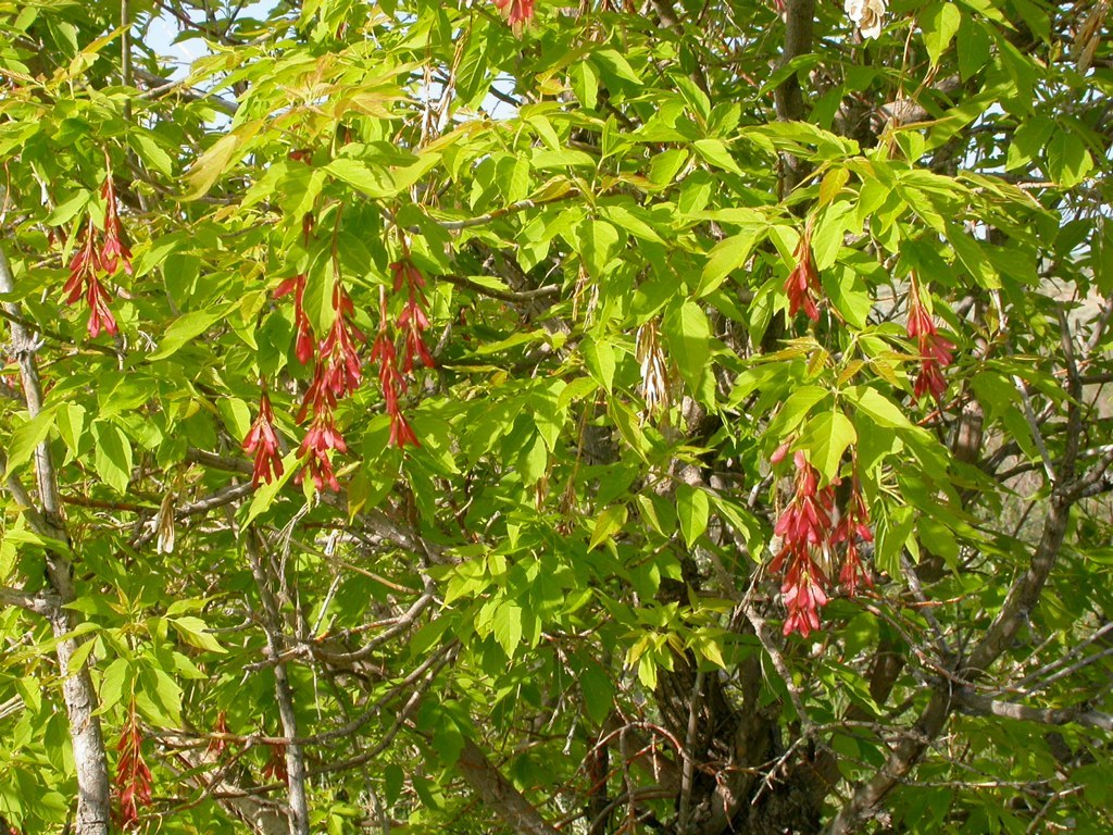 Acer negundo foliage and young fruit. The paired winged fruits are typically reddish when young. Bozeman, Montana, USA.